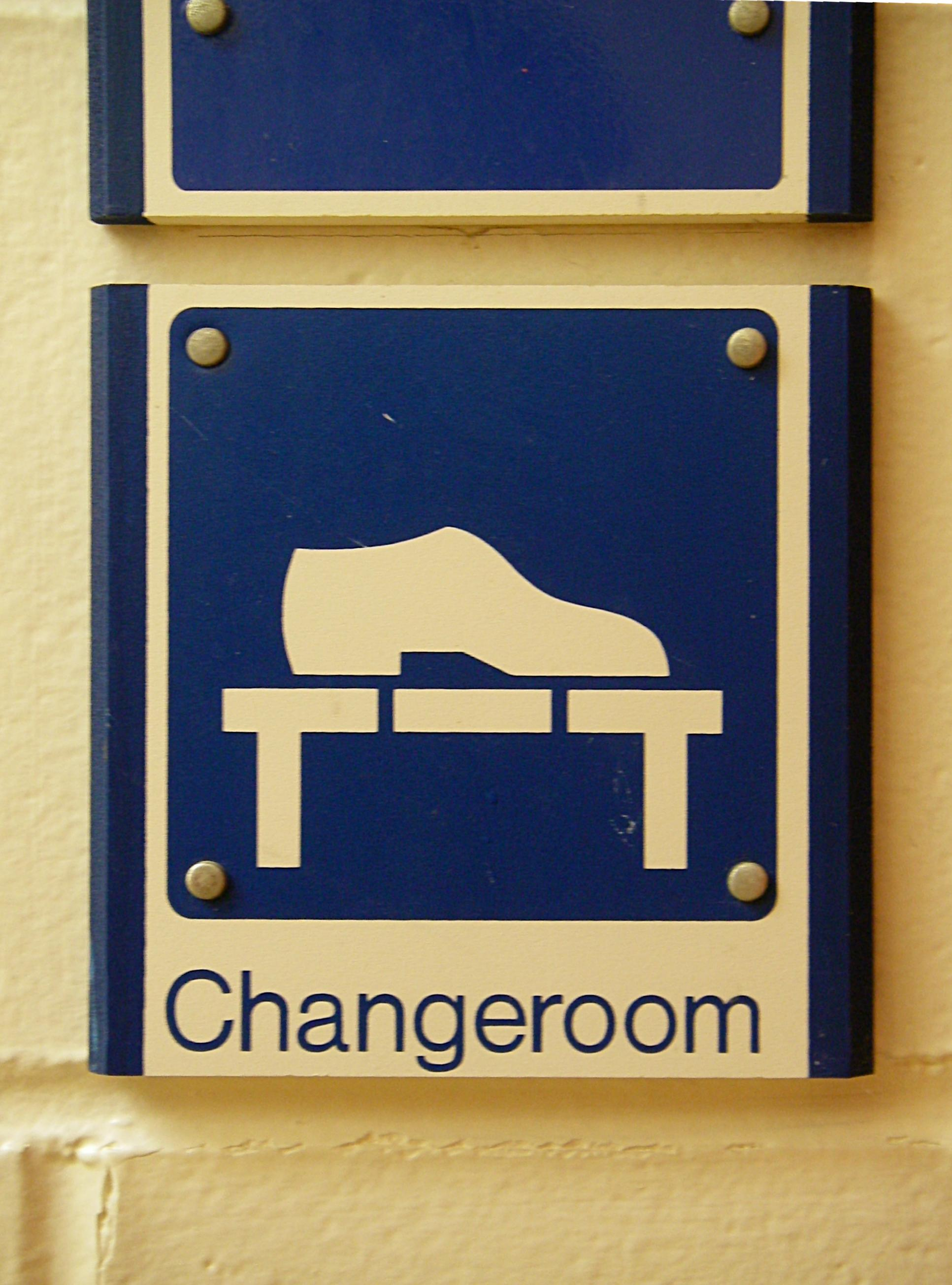 Another image, showing context, is also available: File:Changeroom symbol112 with context.jpg